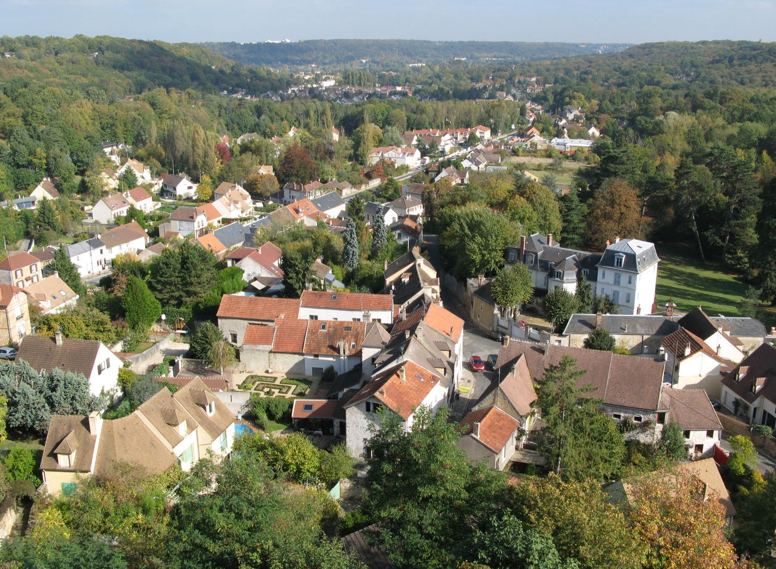 French town Gometz le Châtel, photo.